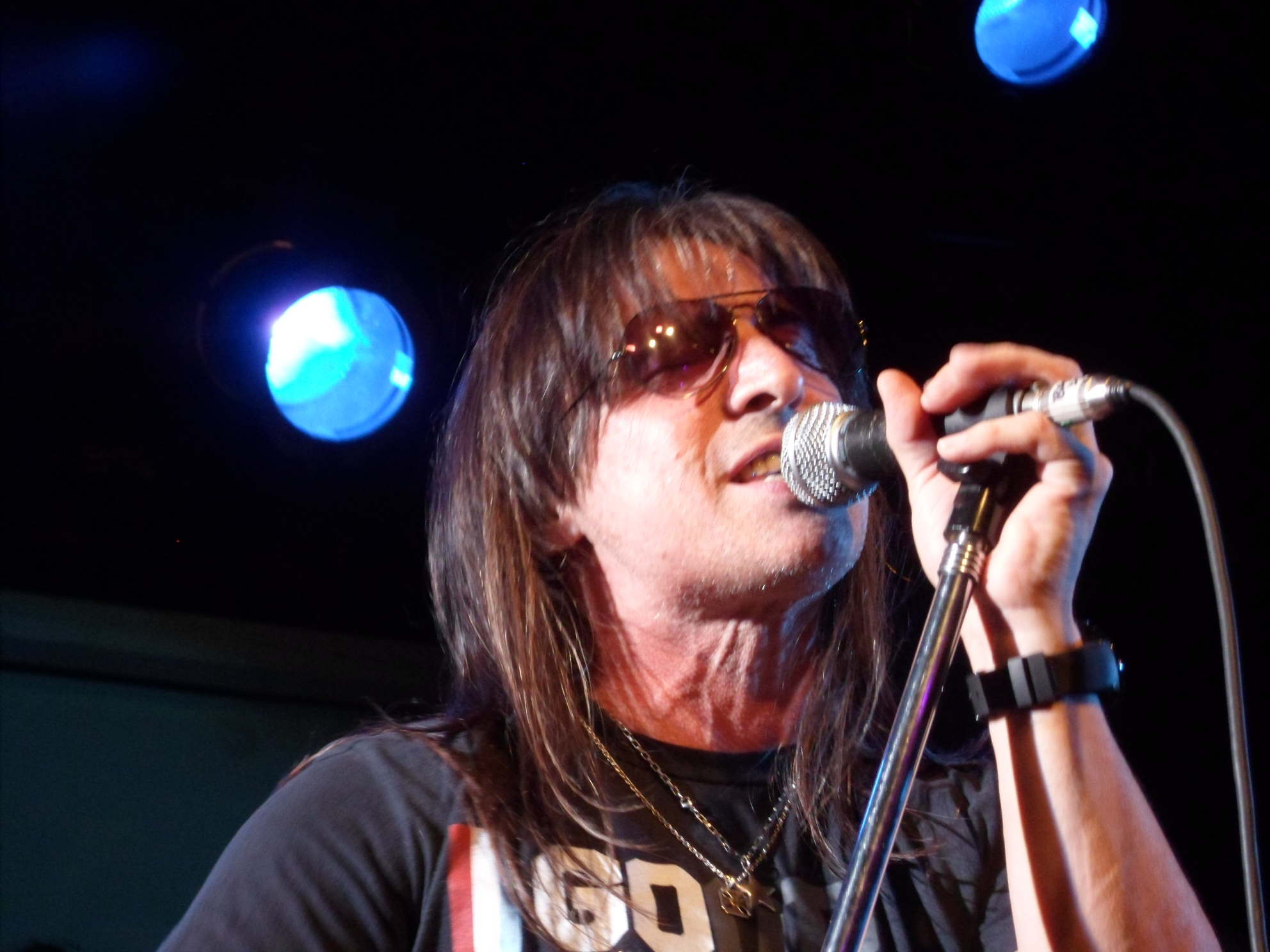 Adrian cantando de invitado de Cinnamun Beloved en el Roxy Buenos Aires, 5 de octubre 2012